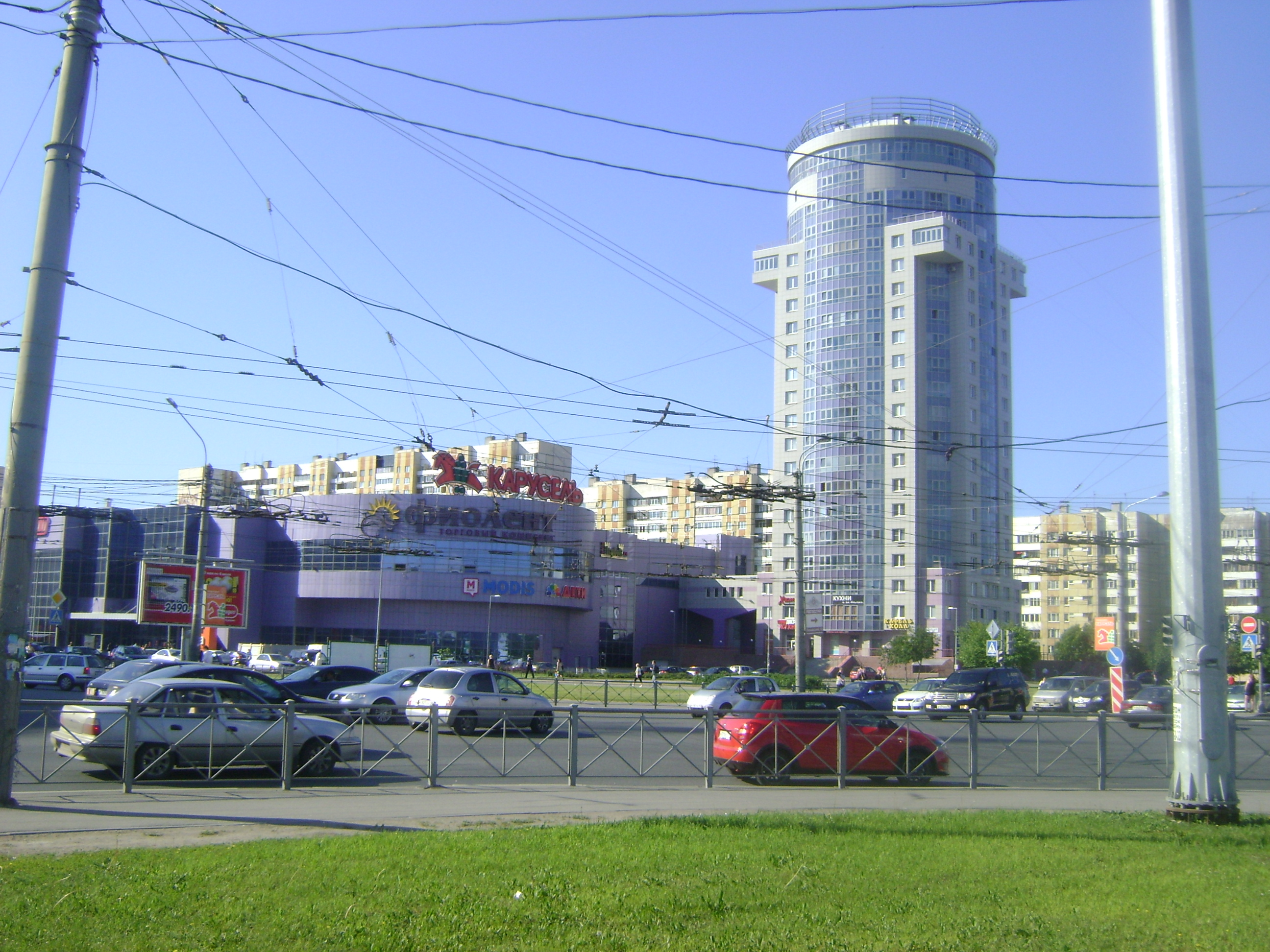 crossroad Leninsky prospekt and Marshala Zhukova Prospekt (Saint Petersburg)